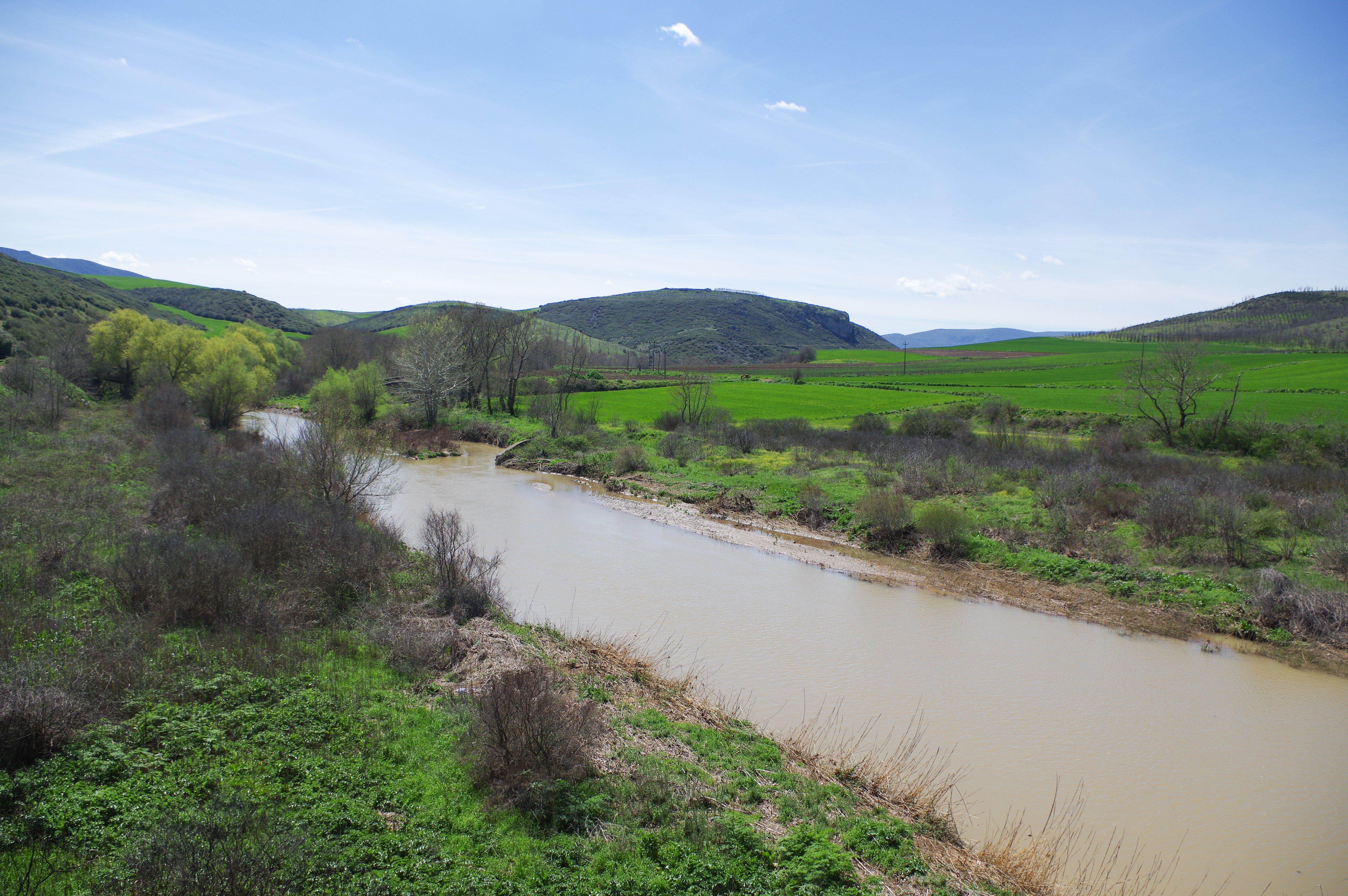 River Enipeus, modern Enipeas.